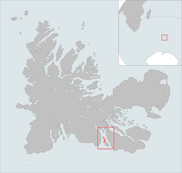 Position of Île Altazin, in the Kerguelen Islands. Drawn by Varp and coloured by lal.sacienne.